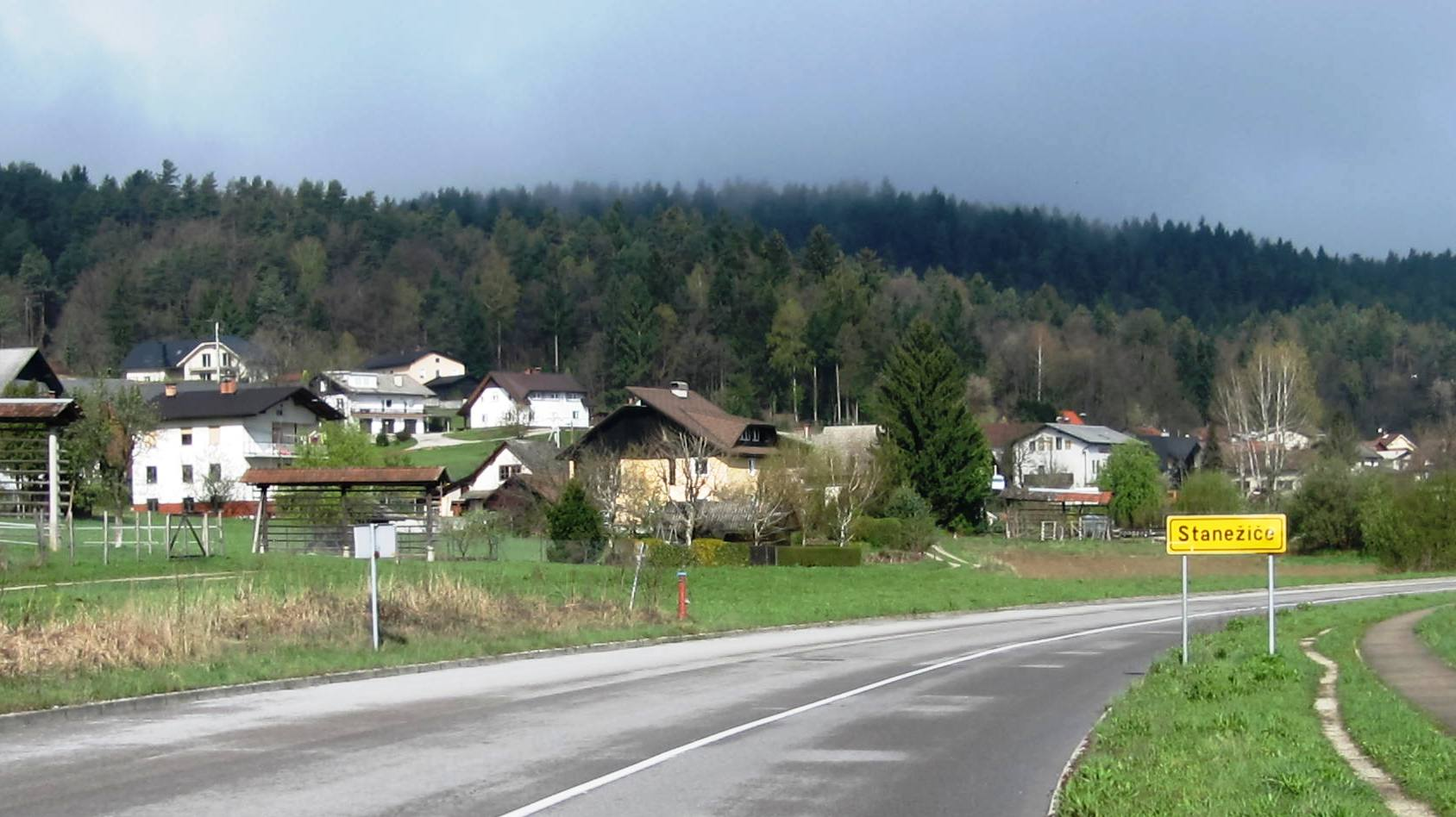 Stanežiče, Ljubljana Urban Municipality, Slovenia. View entering the settlement from the south.